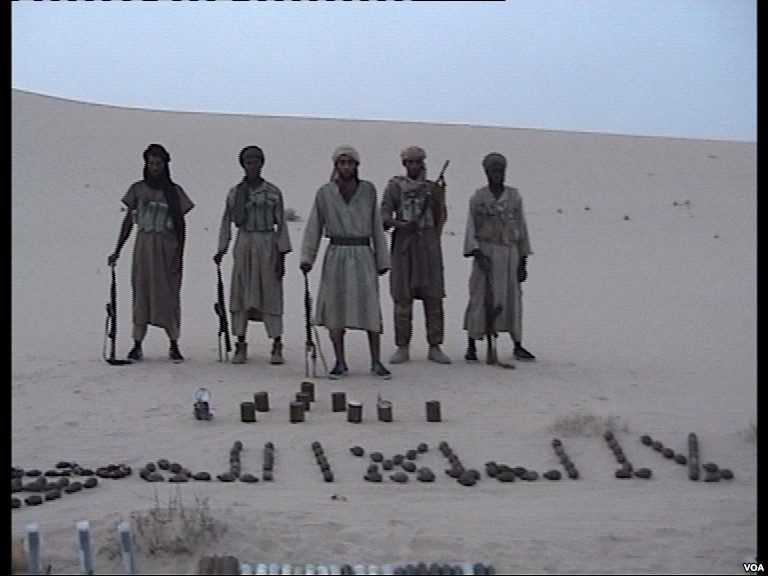 AQIM combattants in the Algerian desert